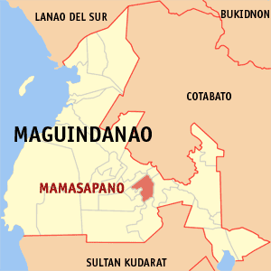 Map of the Maguindanao showing the location of Mamasapano